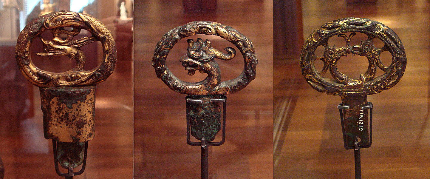 Sword hilts, end of the Kofun period, Japan, 6th century. Musee Guimet. Personal photograph.